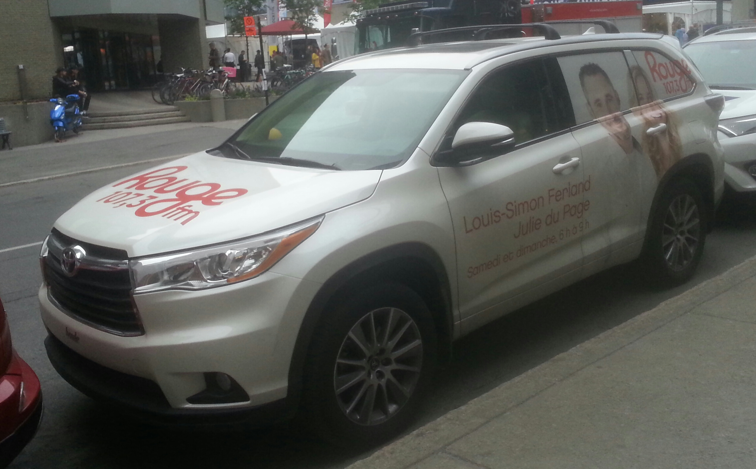 2014-2016 Toyota Highlander photographed in Montreal, Quebec, Canada with a logo of CITE-FM (107,3 Rouge fm) and two hosts Louis-Simon Ferland & Julie Du Page.